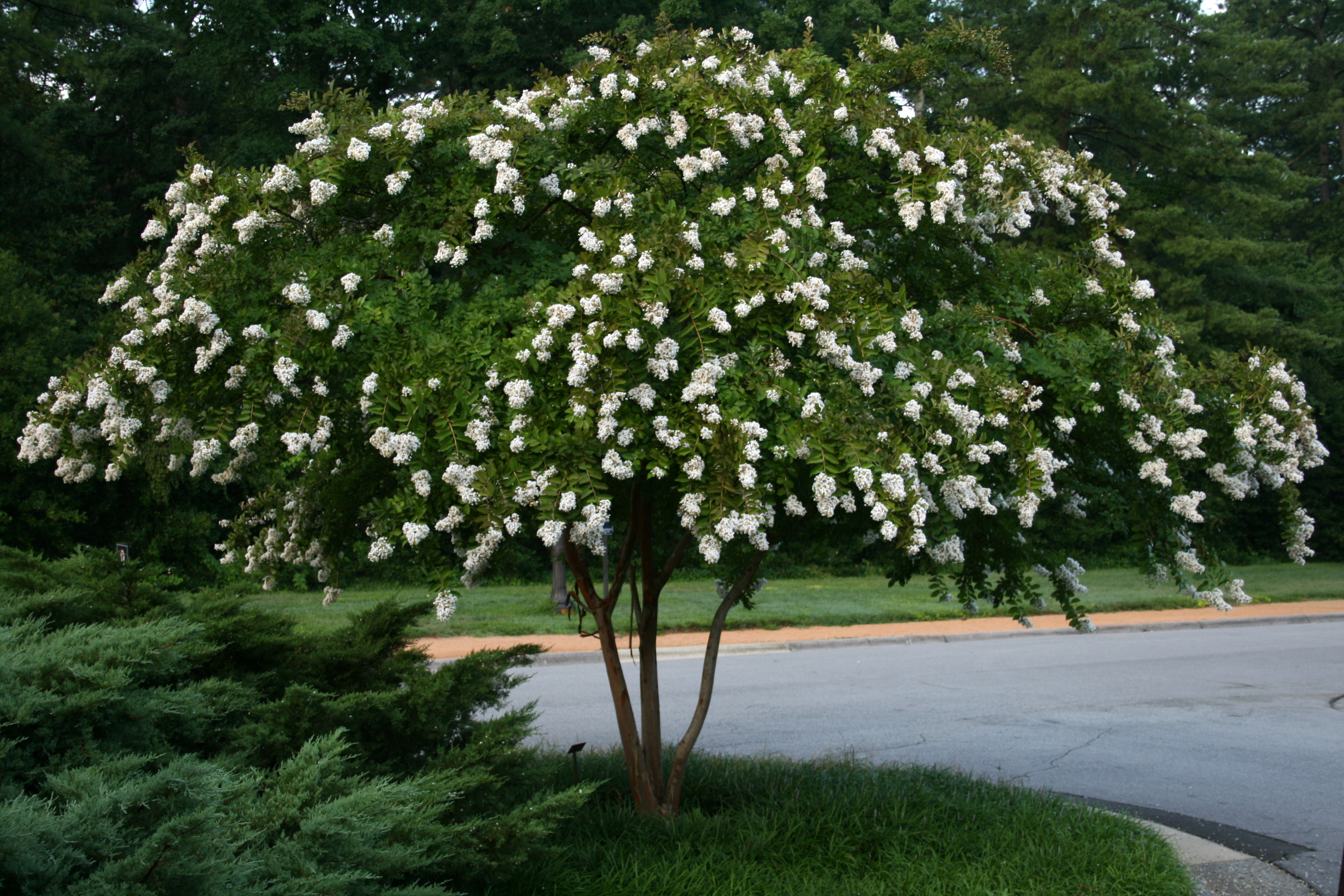 A flowering Lagerstroemia indica tree at the Sarah P. Duke Gardens at Duke University in Durham, North Carolina.